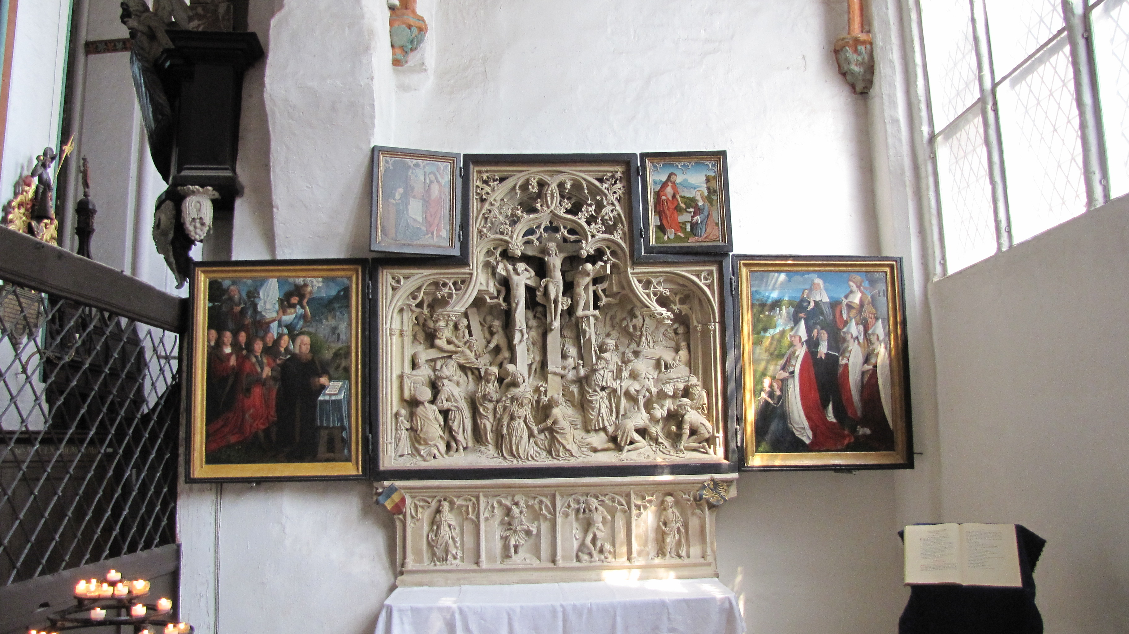 The Brömbsenaltar in the family chapel in St. Jakobi, Lübeck, stone reliefs formerly attributed to Hans Brabender, now to Evert van Roden